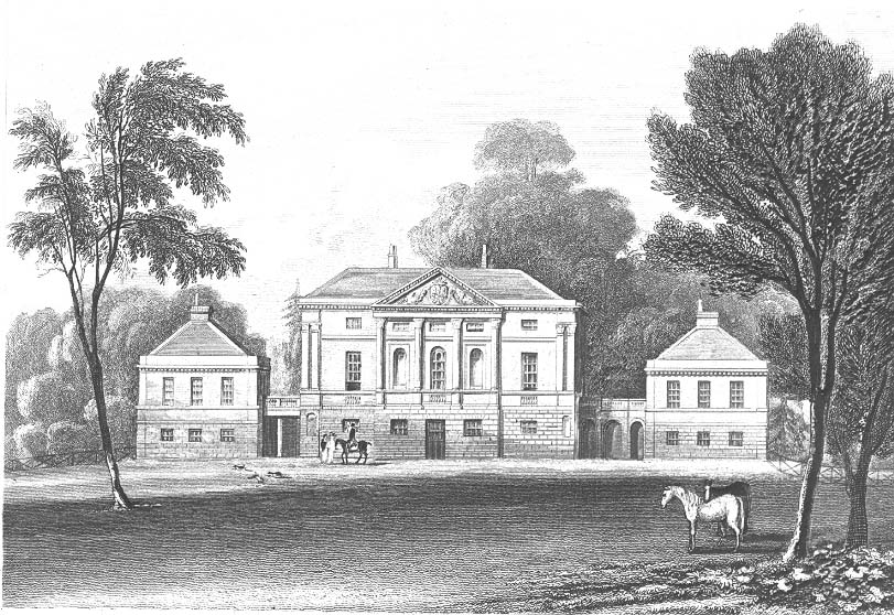 Hare Hall in Romford, London Borough of Havering